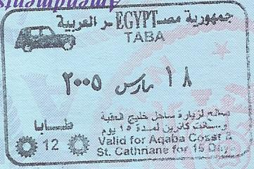 An Egyptian entry stamp in a US passport granting a visit of 15 days and featuring an automobile, signifying that the holder is crossing with a vehicle.